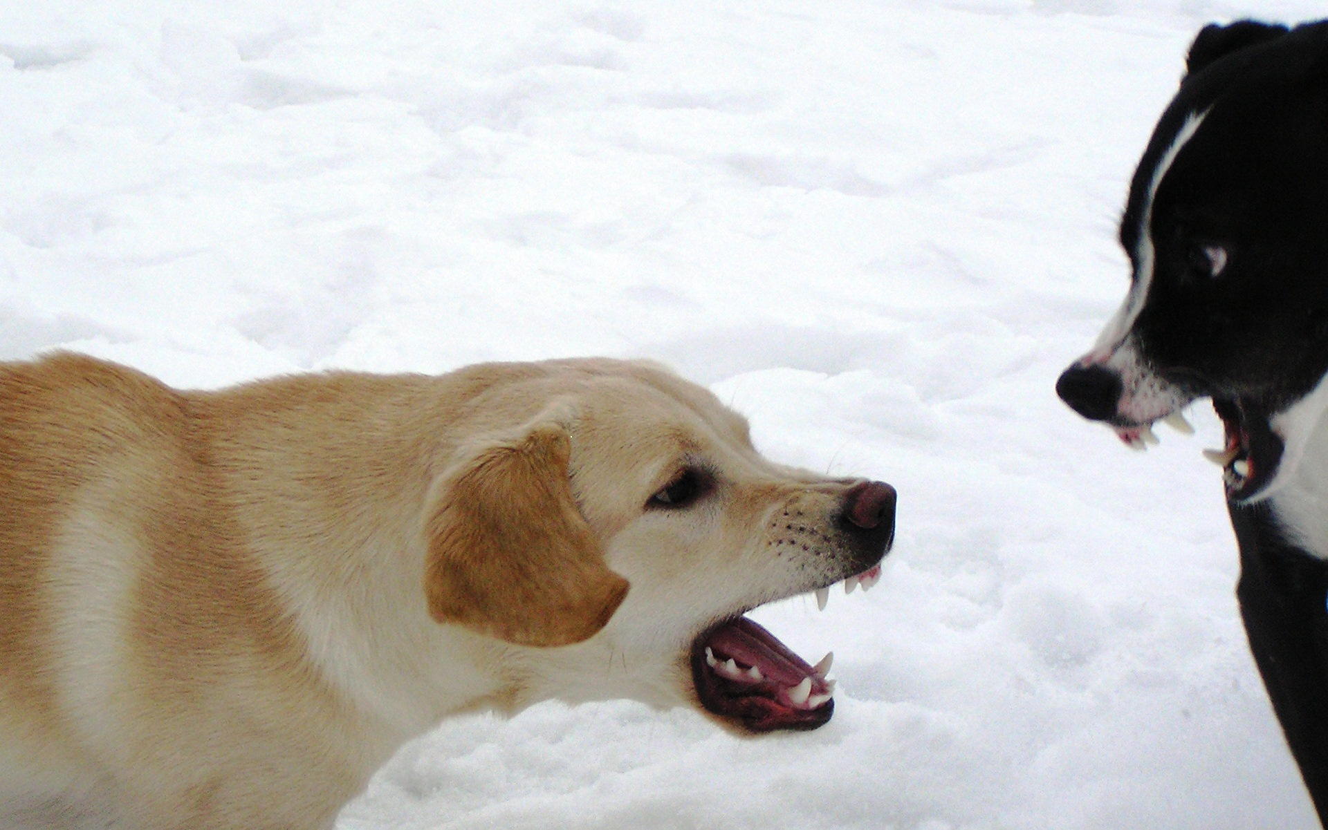 Yellow Lab growls at a familiar Border Collie mix.